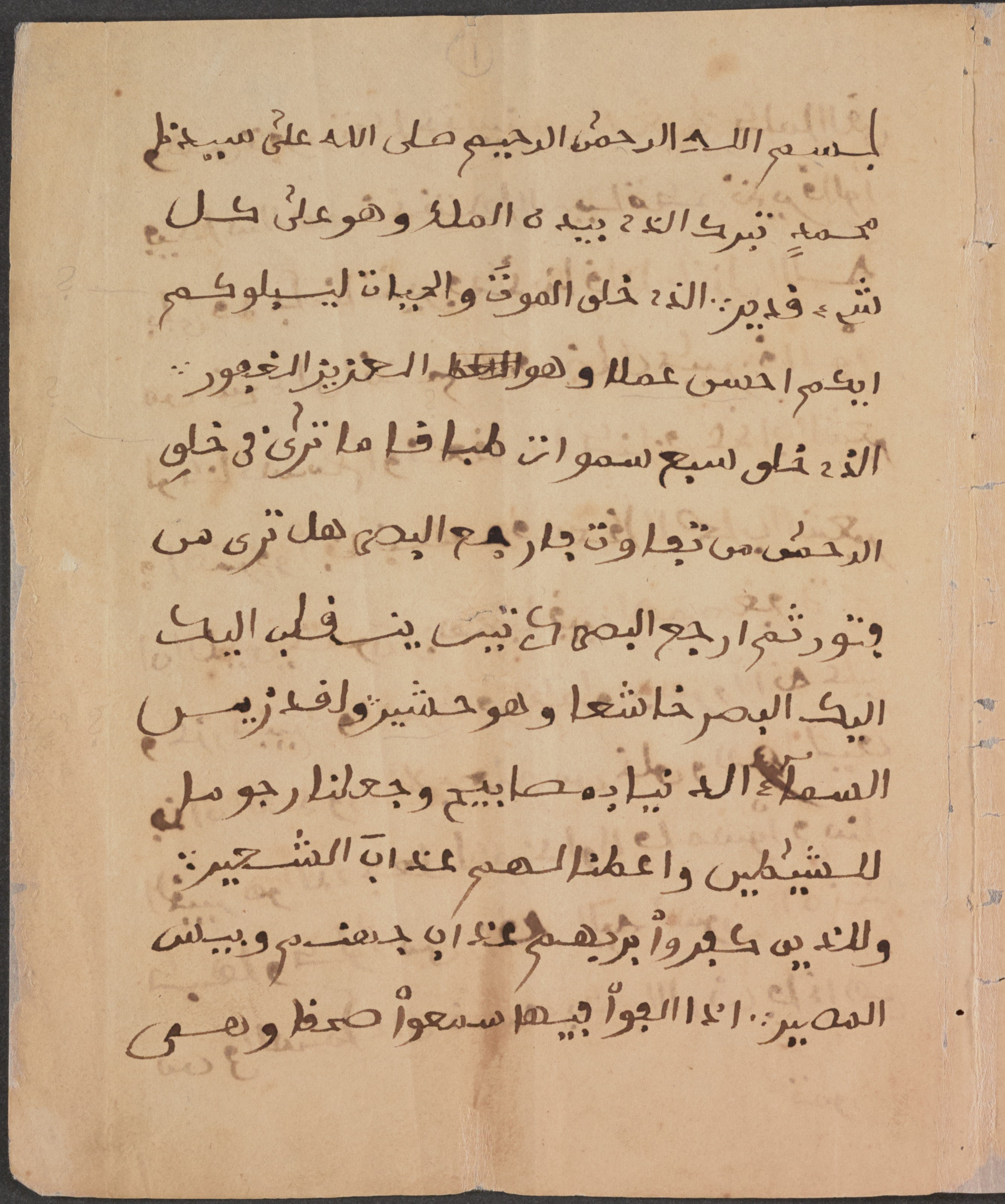 Surat (Chapter) al Mulk from the Quran written by Omar Ibn Said